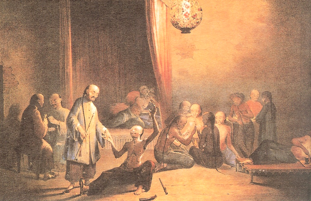 18世紀中國人服食鴉片圖。A picture of Chinese people who became addicted to opium in the 18th Century.